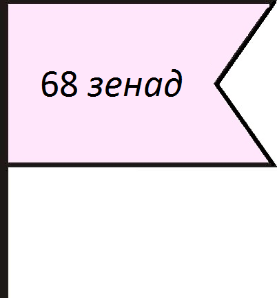 Sign RGK antiaircraft artillery division, air defense in tactical map